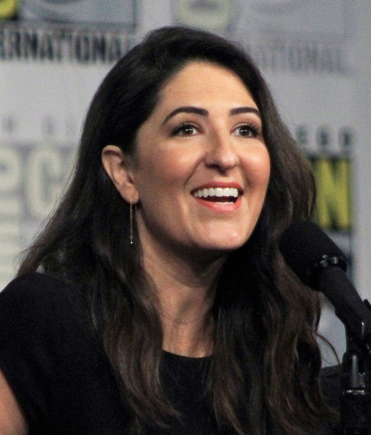 Cast and crew of NBC's 'The Good Place' discuss the show in the Indigo Ballroom at the San Diego Hilton Bayfront Hotel during San Diego Comic Con on July 21, 2018. Taken by Dominique Redfearn.